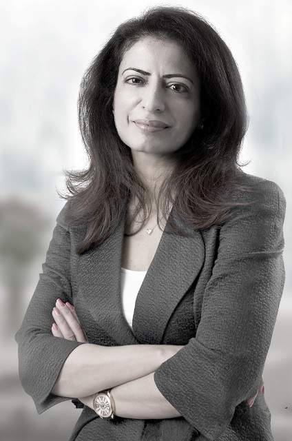 The photo is of Dr. Amina Al Rustamani. It is being used with her biography.